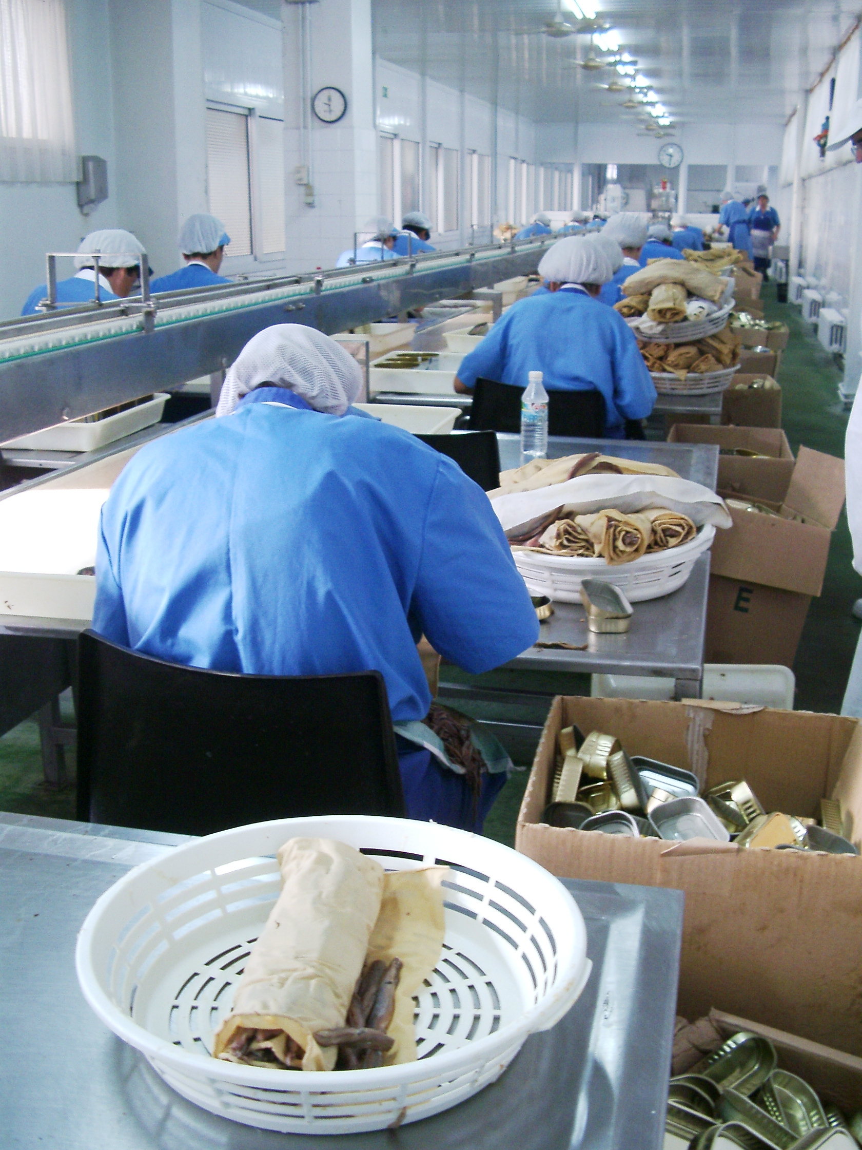 Worker women in a canning line of a anchovy fabric in Santoña (Cantabria, Spain).